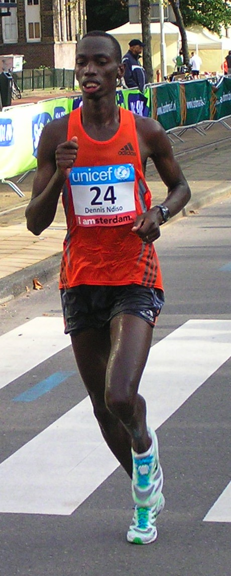 Kenyan runner Dennis Ndiso at the 2008 Amsterdam Marathon.